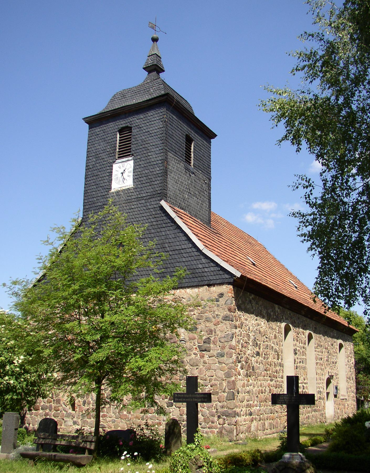 Church in Werder-Plötzin in Brandenburg, Germany